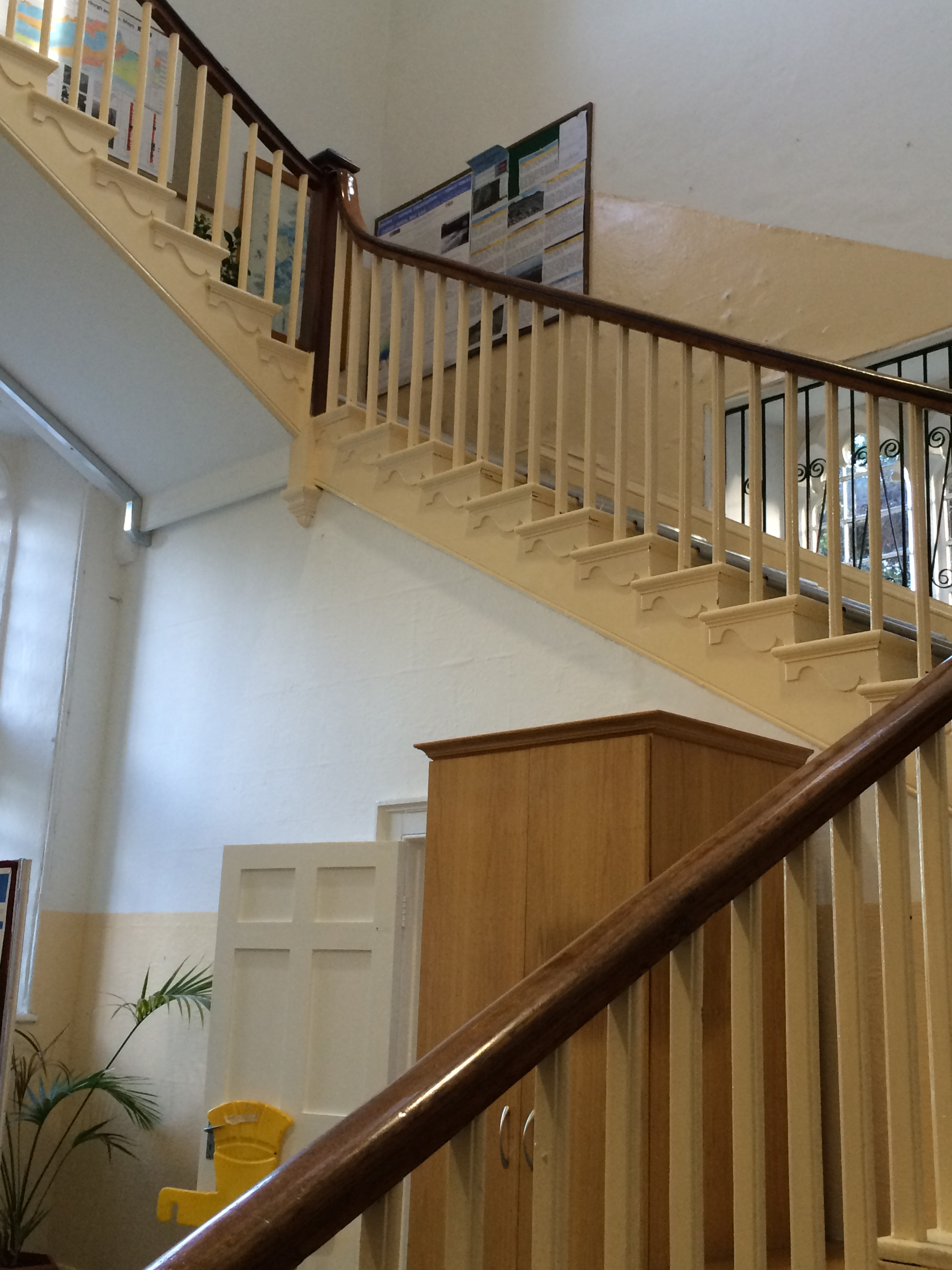 Stairs to the entrance of the James Mitchel Museum, through the south east corner of the NUI Galway quadrangle building